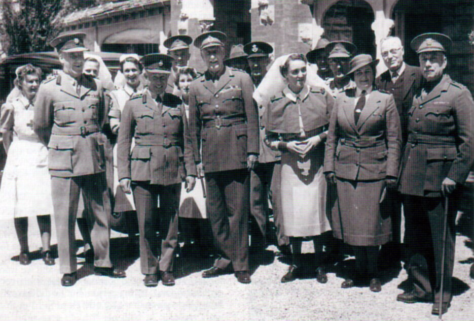 Officers, nurses and Louis Laybourne Smith (civilian, far right of the second row) at the Repatriation Hospital, Daw Park, Adelaide.